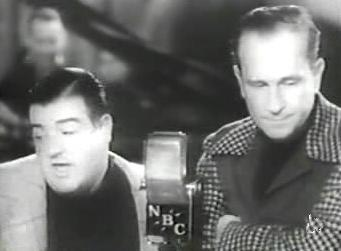 Abbott and Costello Whos on First